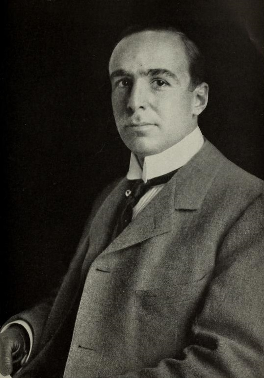 Portrait of Winston Churchill, by Haeseler, 1908